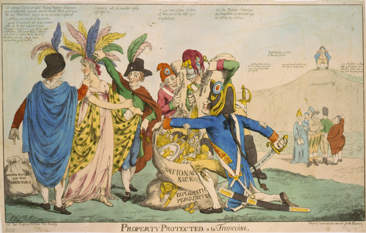 British satire of Franco-American relations after the XYZ Affair in May of 1798; 5 Frenchmen plunder female "America", while six figures representing other European countries look on. John Bull sits laughing on "Shakespeare's Cliff."